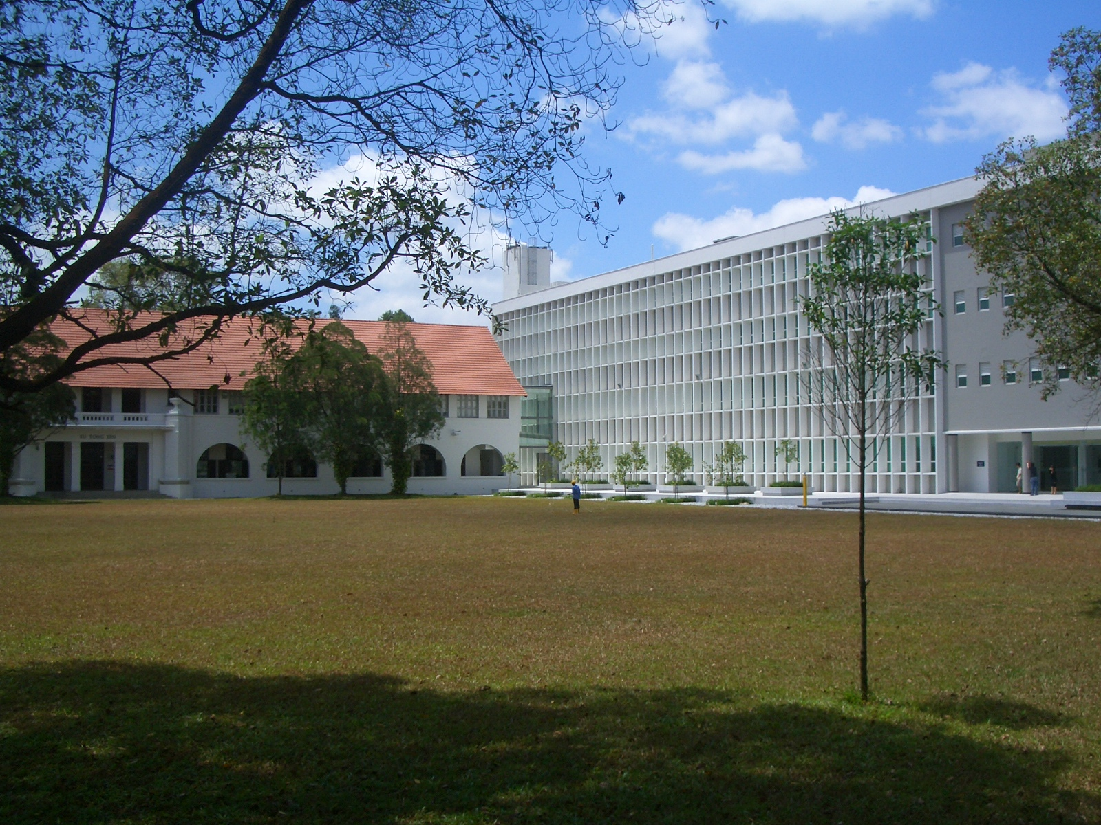 The Eu Tong Sen Building (left), Block B (right), and Upper Quadrangle of the Faculty of Law, National University of Singapore.